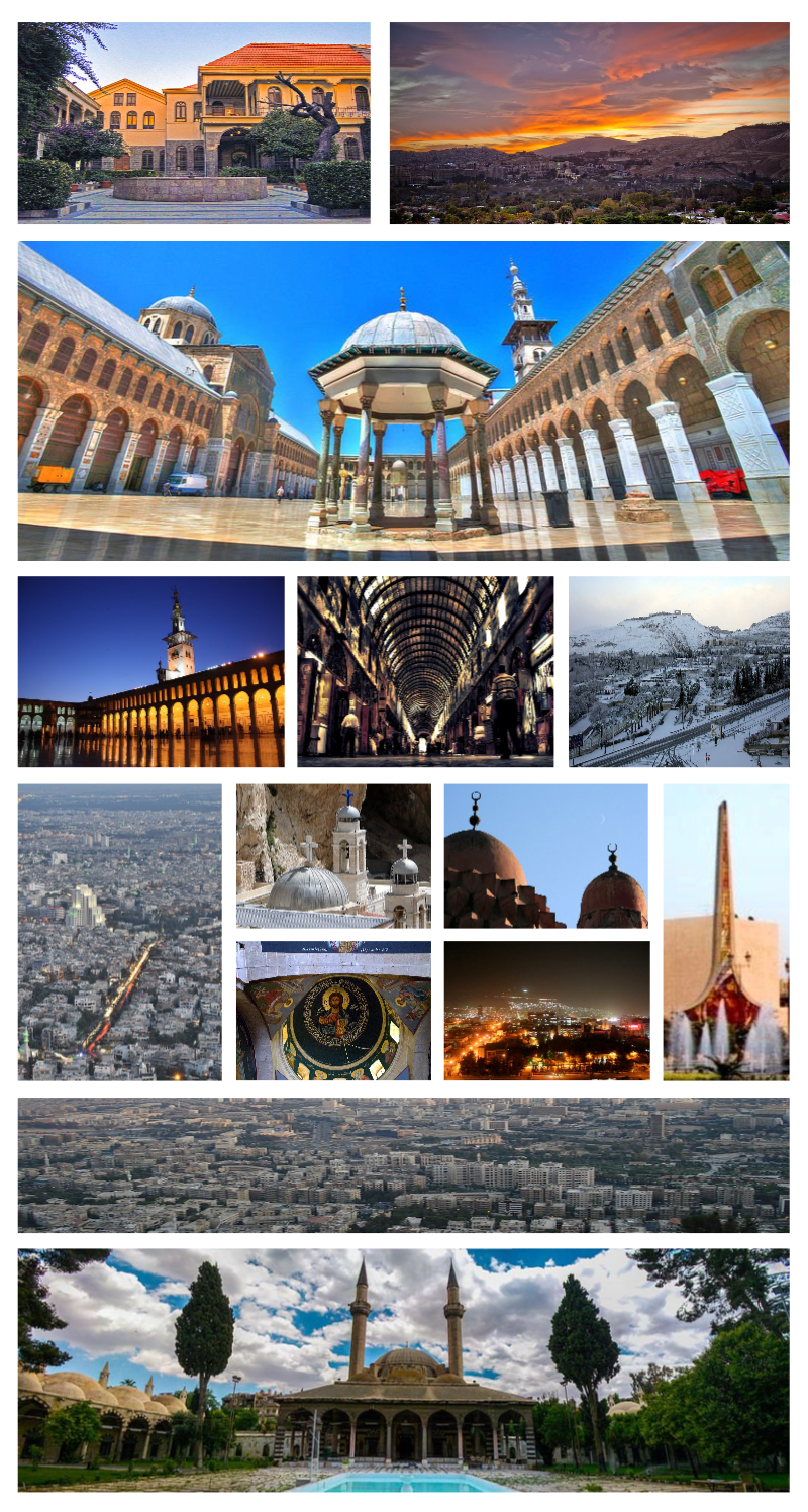 A montage of capital Damascus